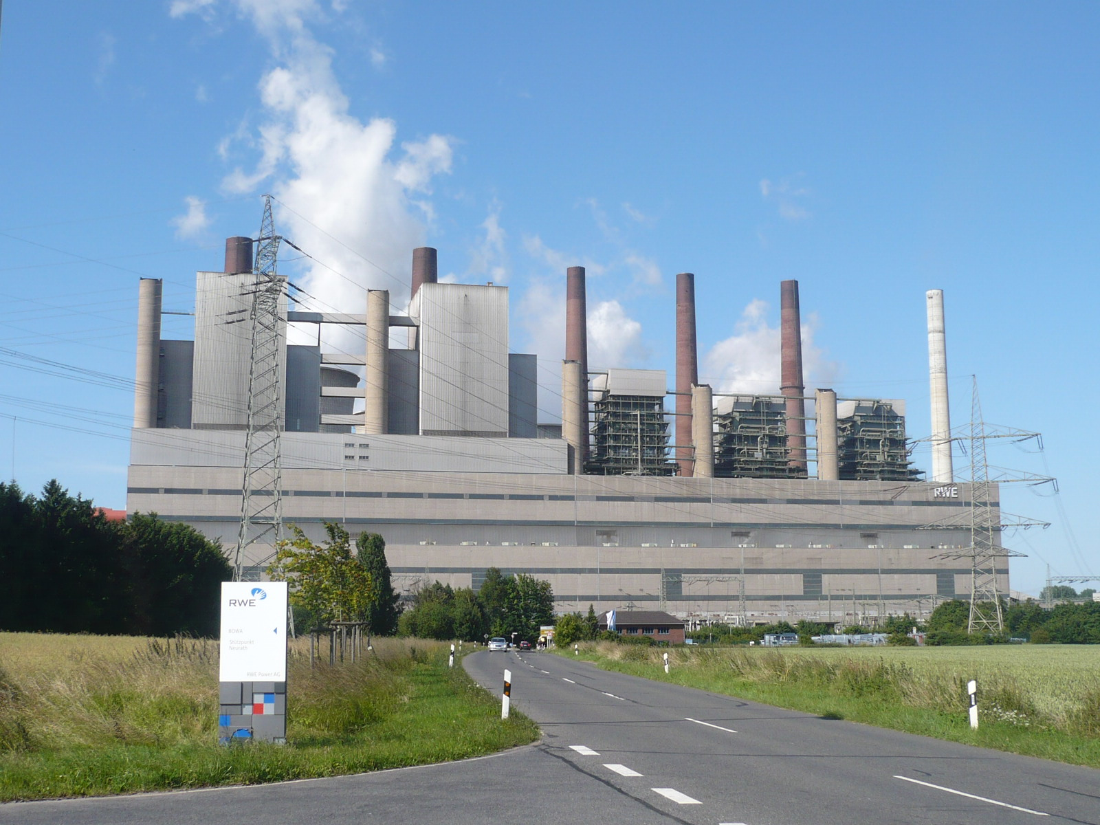 Power station Neurath, Germany. Existing station without new "BoA" part